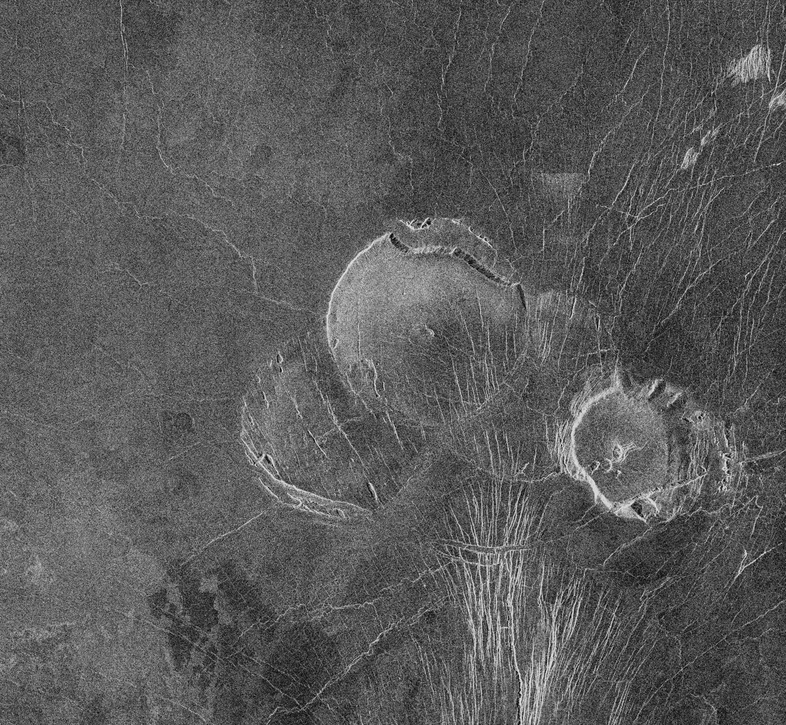 Three volcanoes of Guinevere Planitia. Description from web page of NASA original image PIA00261: This image, with radar illumination from west to east, shows three unusual volcanoes located in the Guinevere Planitia lowland. At the center of the image is a large feature (50 kilometers or 31 miles in diameter) with an unusual shape; very round when viewed from above with steep slides and a flat top. These volcanoes are believed to be the result of relatively thick and sticky (viscous) lava flows that originated from a point source. Although a faint remnant of its original circular shape is preserved, the northern rim of this center volcano has a steep scarp. The scarp is probably the result of material that has slid away from the volcano and subsequently has been covered by lava flows. This volcano overlaps another feature to the southwest that is about 45 kilometers (28 miles) in diameter and disrupted by many fractures. The southeastern volcano (25 kilometers or 15.5 miles in diameter) appears to be the highest of the three as its illuminated western edge has the brightest radar return. The scalloped edges give this feature a bottlecap-like appearance. The highly scalloped edges are probably the result of multiple material slides along the volcano margin.